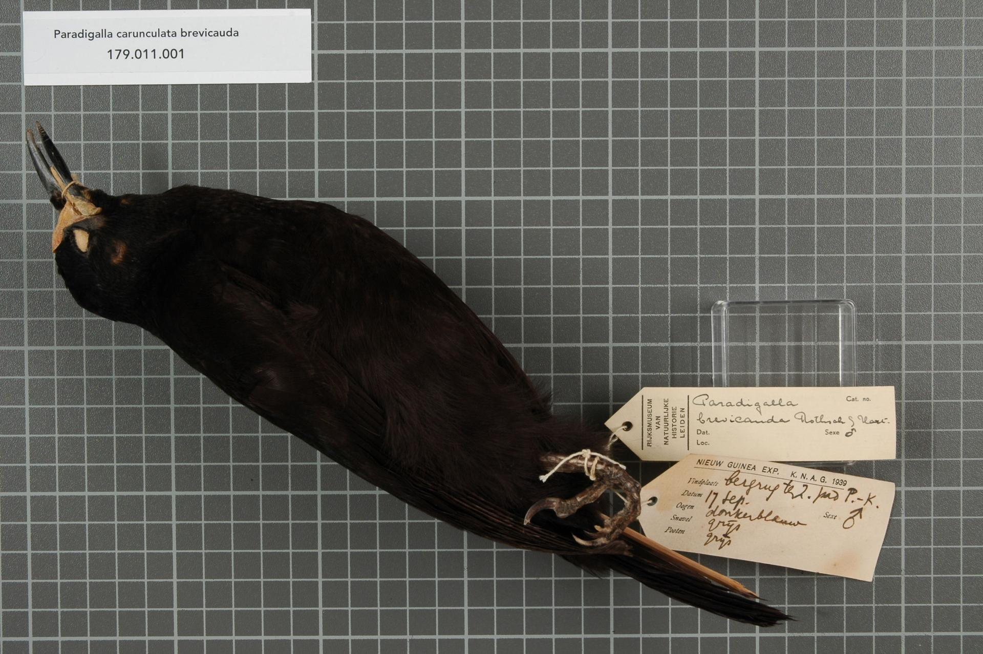 Paradigalla carunculata brevicauda Rothschild and Hartert, 1911